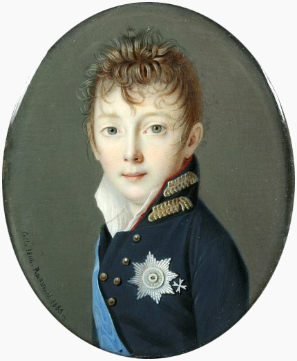 Nicholas I of Russia (1796-1855) as a child